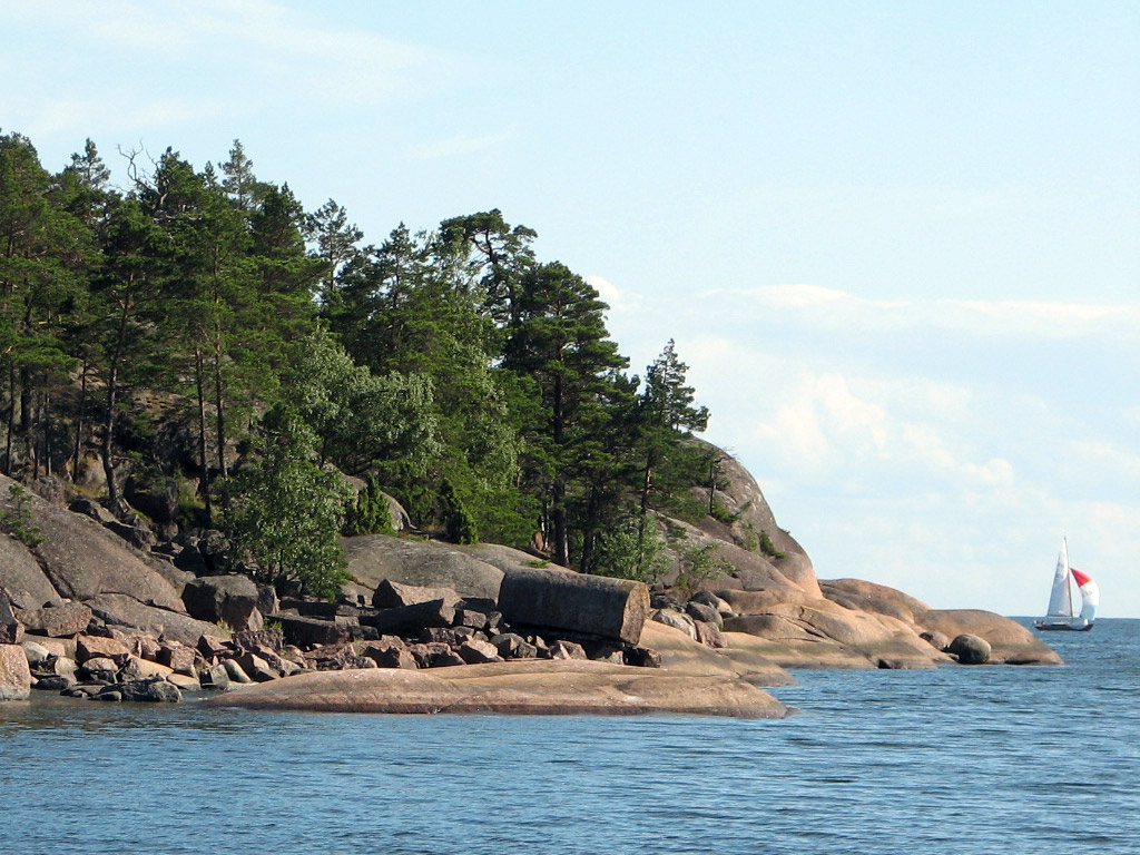 According to legend this stone located in island Onas, Porvoo, Finland was supposed to become Napoleon Bonapartes Sarcophagus.